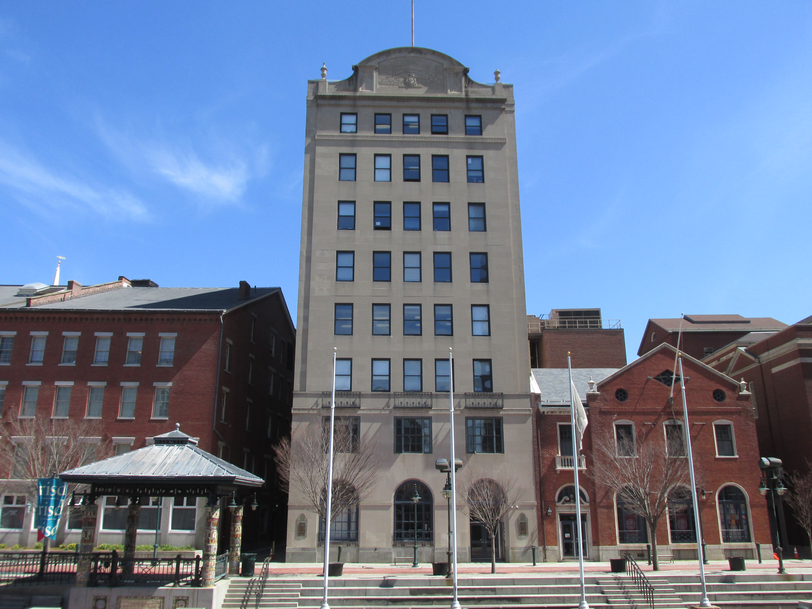 The Design Center, RISD, Providence Rhode Island - 2014